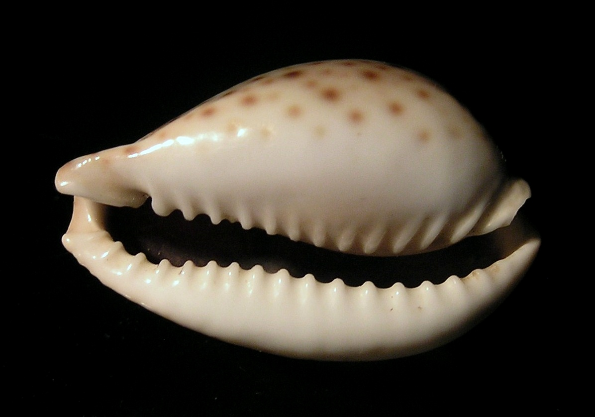 Erosaria lamarckii fainzilberi Lorenz & Hubert, 1993, a cowry from the family Cypraeidae; Vietnam